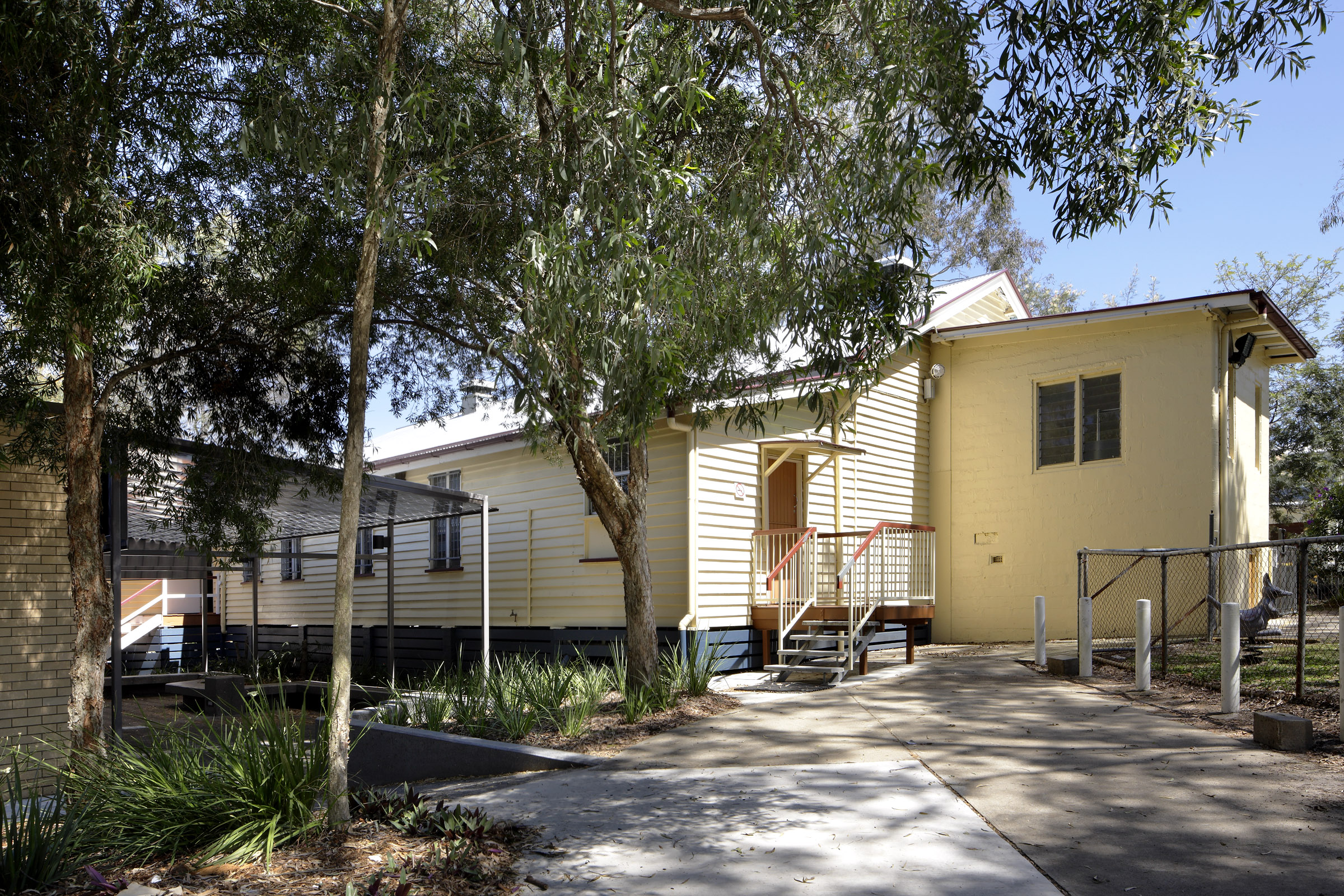 Sunnybank Hall is a heritage listed, old memorial style hall.